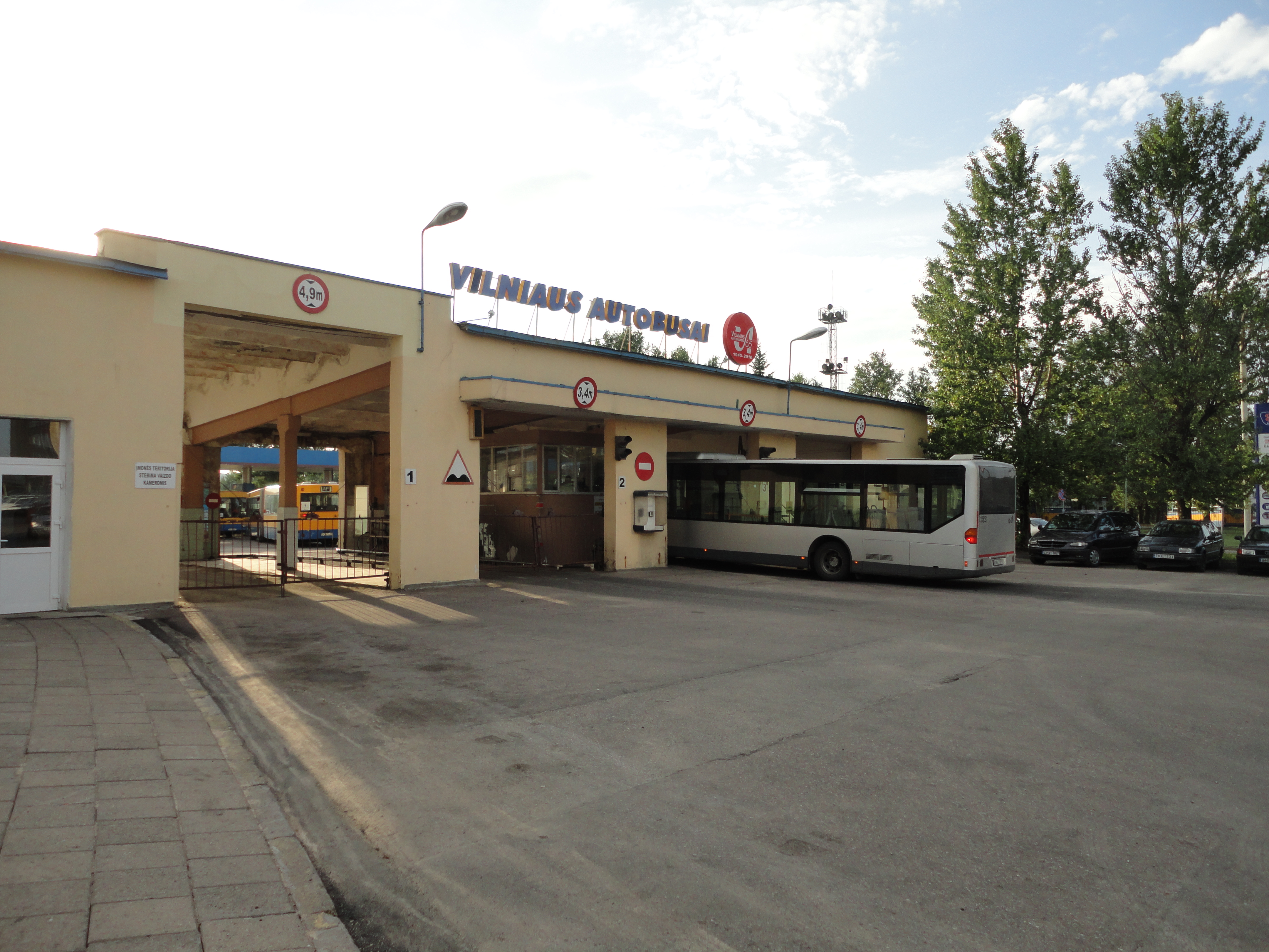 The bus garage of Vilniaus autobusai